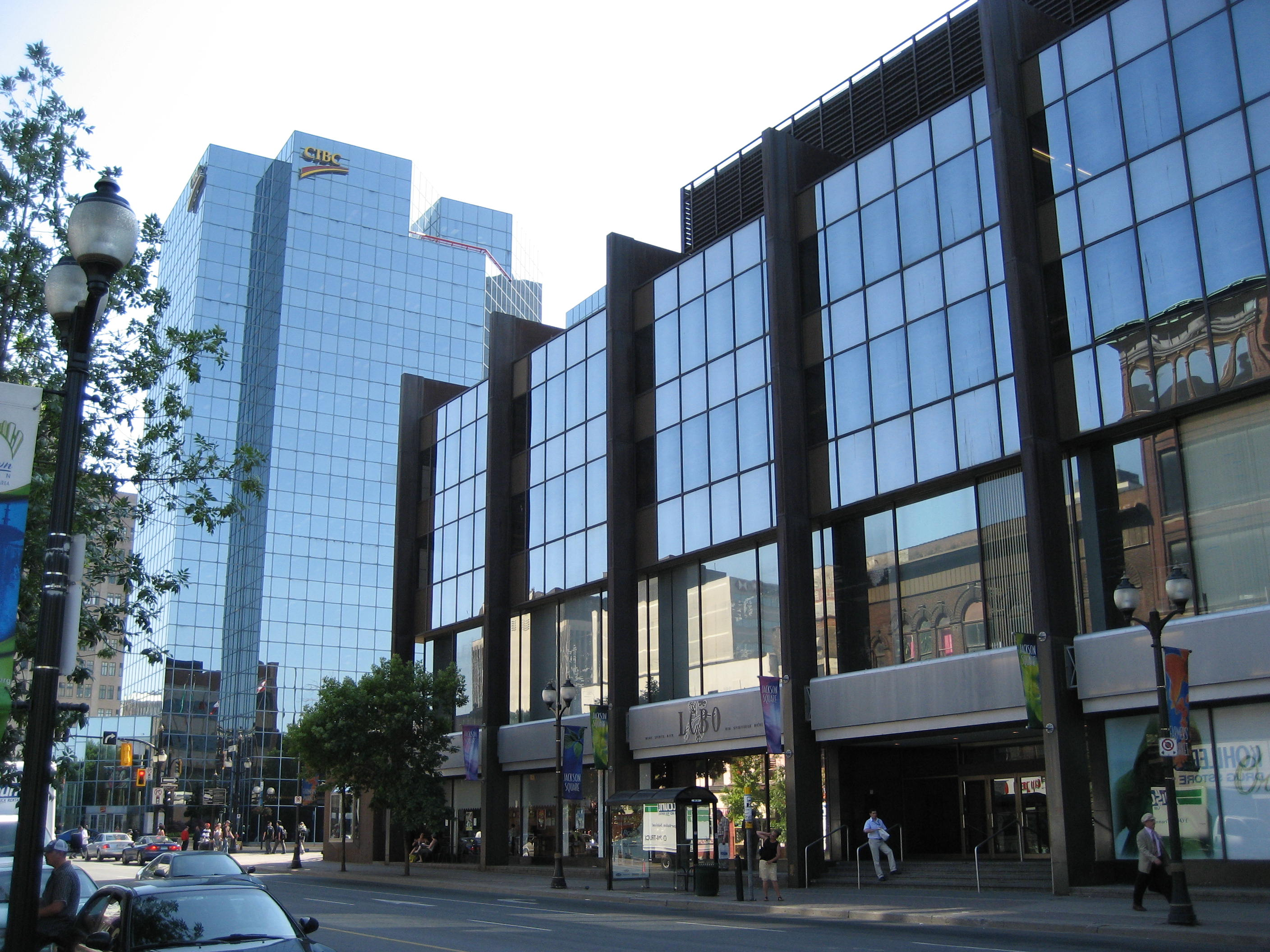 Lloyd D. Jackson Square (Mall), downtown Hamilton, Ontario